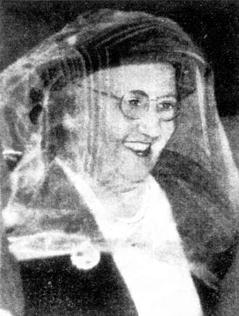 Caroline Grills (née Mickelson, c. 1888 - 6 October 1960) was an Australian serial killer, later known as "Granny Grills" and "Aunt Thally"